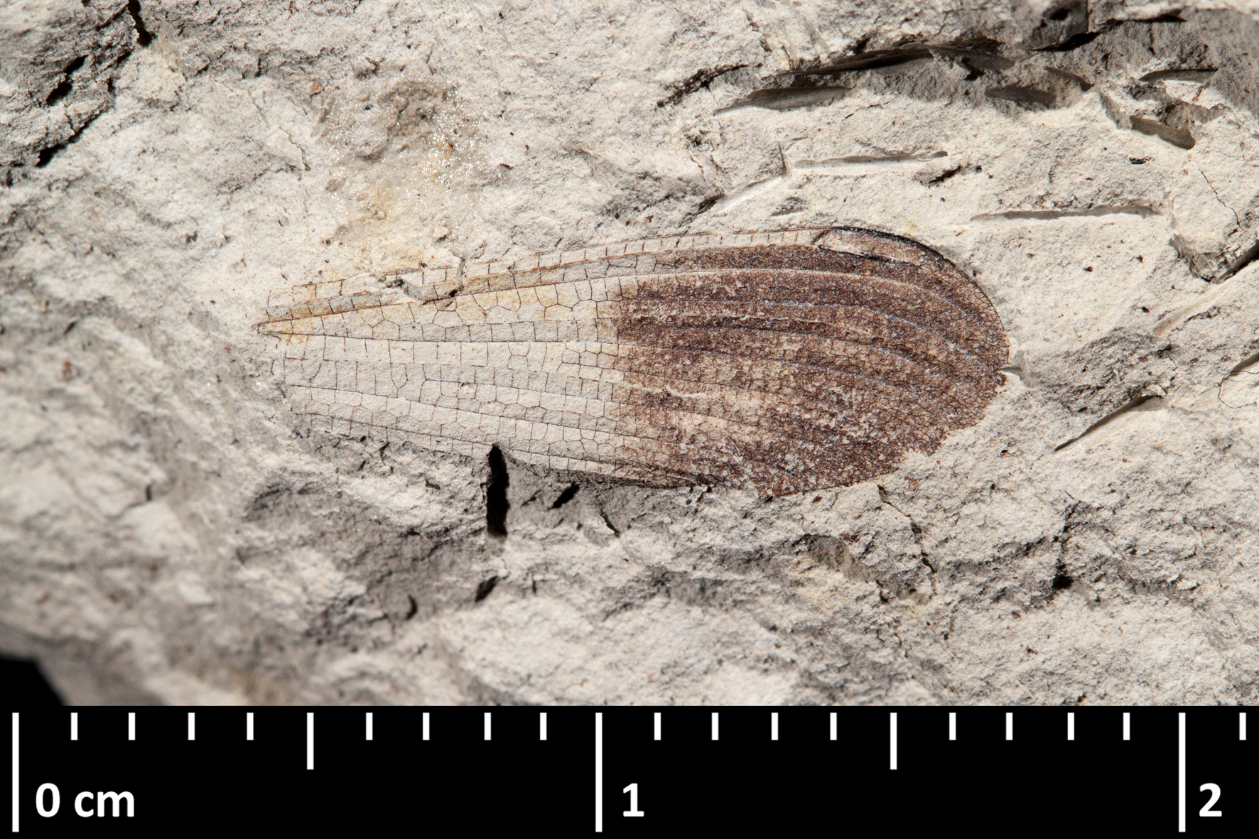 The Cerdanyagrion miocenicus holotype specimen part side with direct lighting. Vallesian/Turolian, Miocene; Bellver de Cerdanya, eastern Pyrenees, Spain Muséum national d'Histoire naturelle specimen MNHN.F.R10430